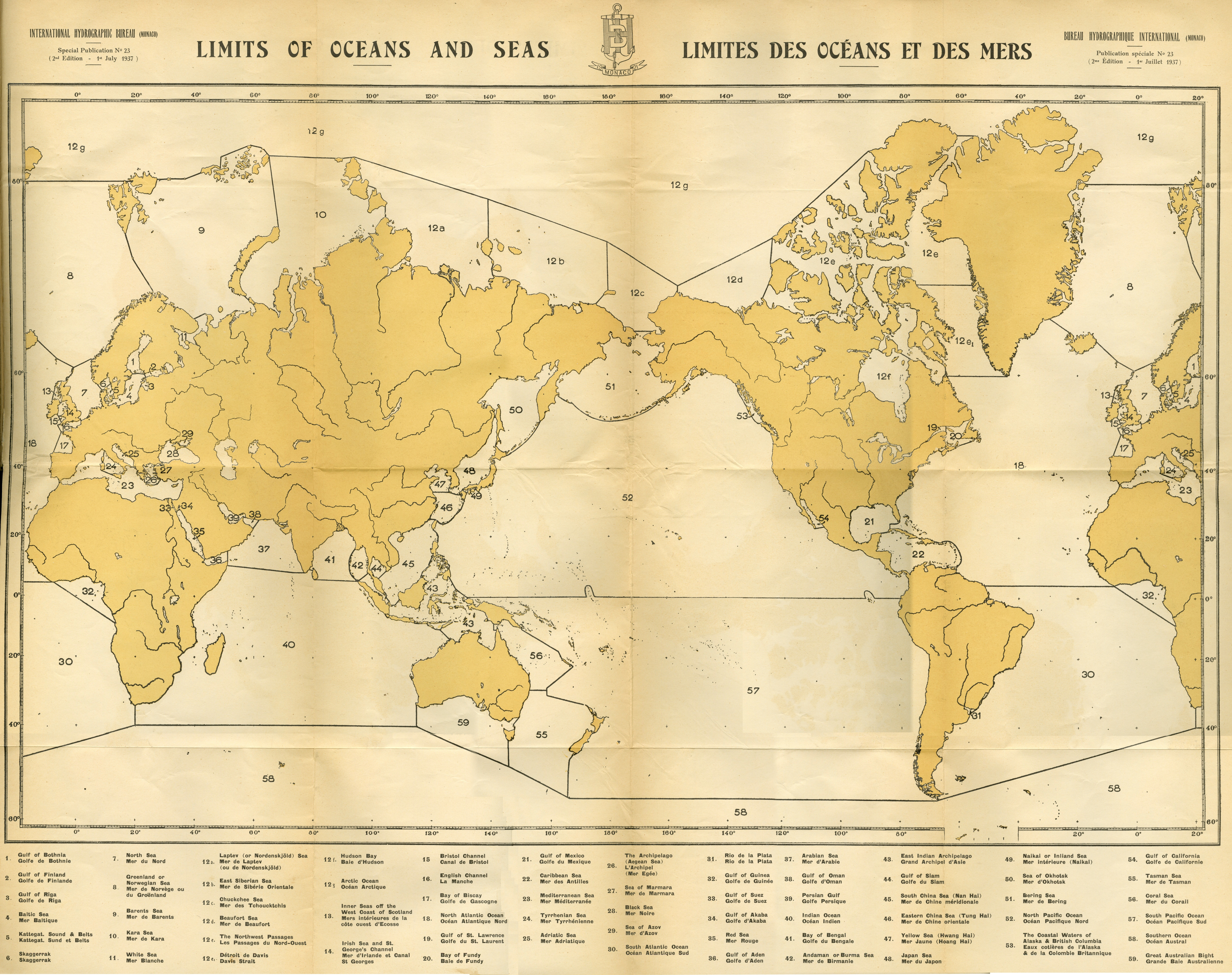 Map accompanying second edition (1937) of IHO Publication Limits of Oceans and Seas, Special Publication 23. The legend includes the "Southern Ocean" (océan Austral).